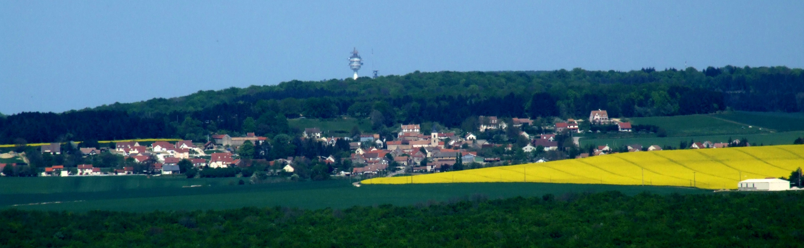 Burgundy, FRANCE